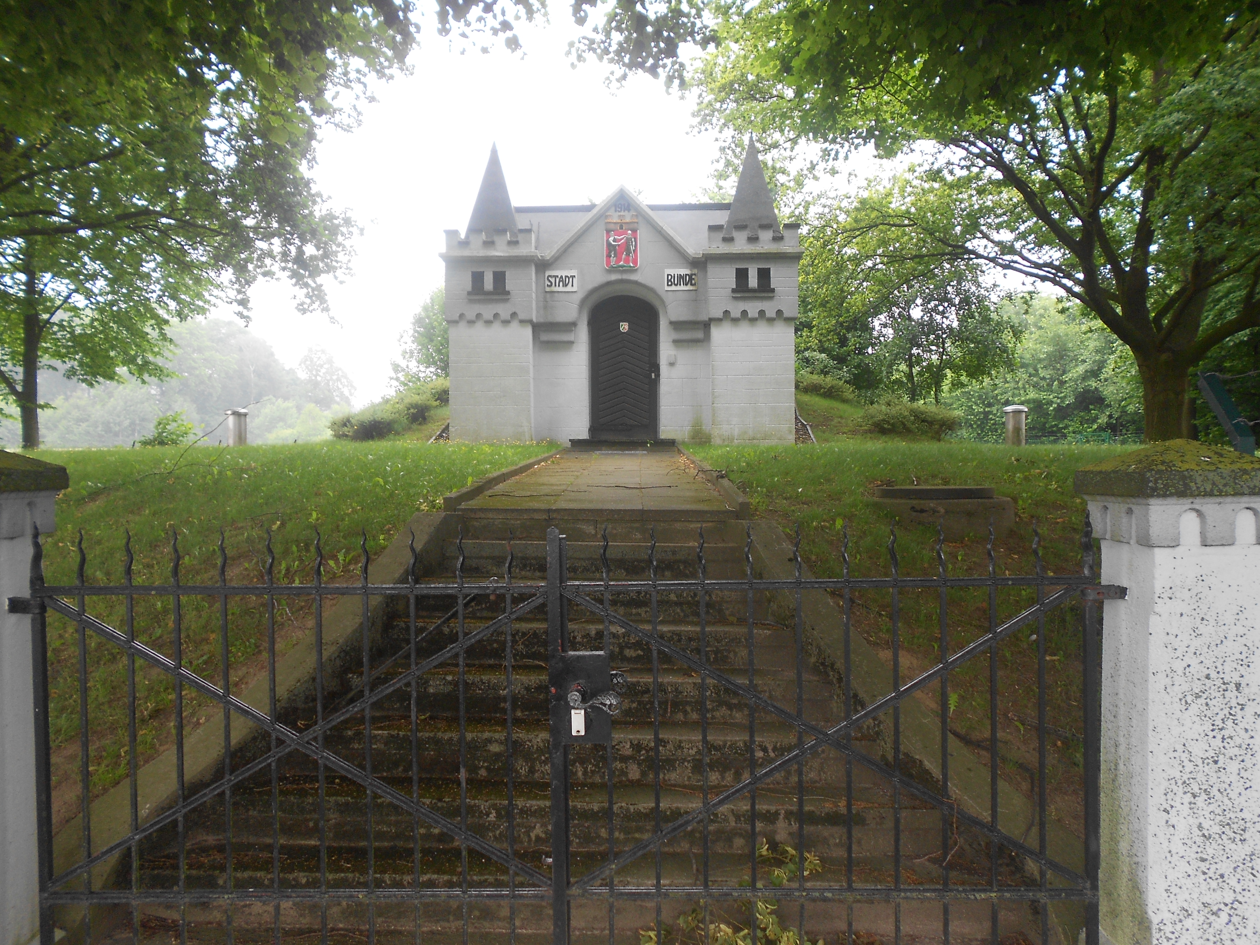 This is a photograph of an architectural monument.